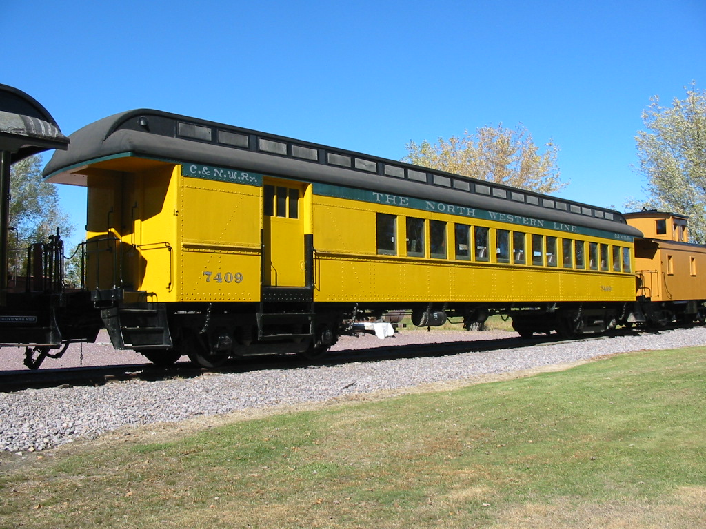 A coach-baggage combine on display at the Mid-Continent Railway Museum in North Freedom. Photo by Sean Lamb (User:Slambo), October 10 2004.